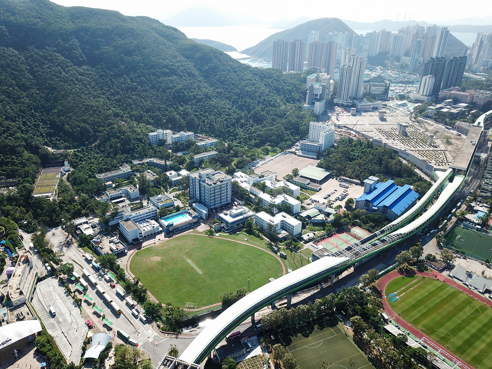 Hong Kong Police College